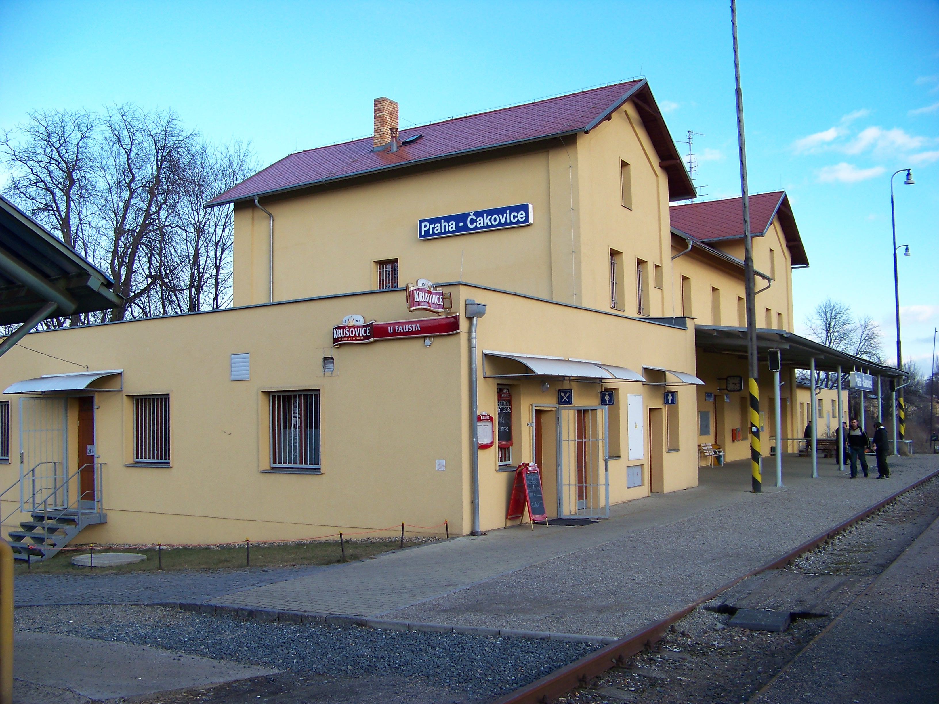 Prague-Čakovice, the Czech Republic. Train station Praha-Čakovice.